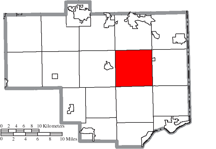 Map of the municipal and township boundaries of Columbiana County, Ohio, United States, as of the 2000 census, with the location of Elkrun Township highlighted. Township borders are shown only in unincorporated areas in order to differentiate incorporated and unincorporated areas more clearly.